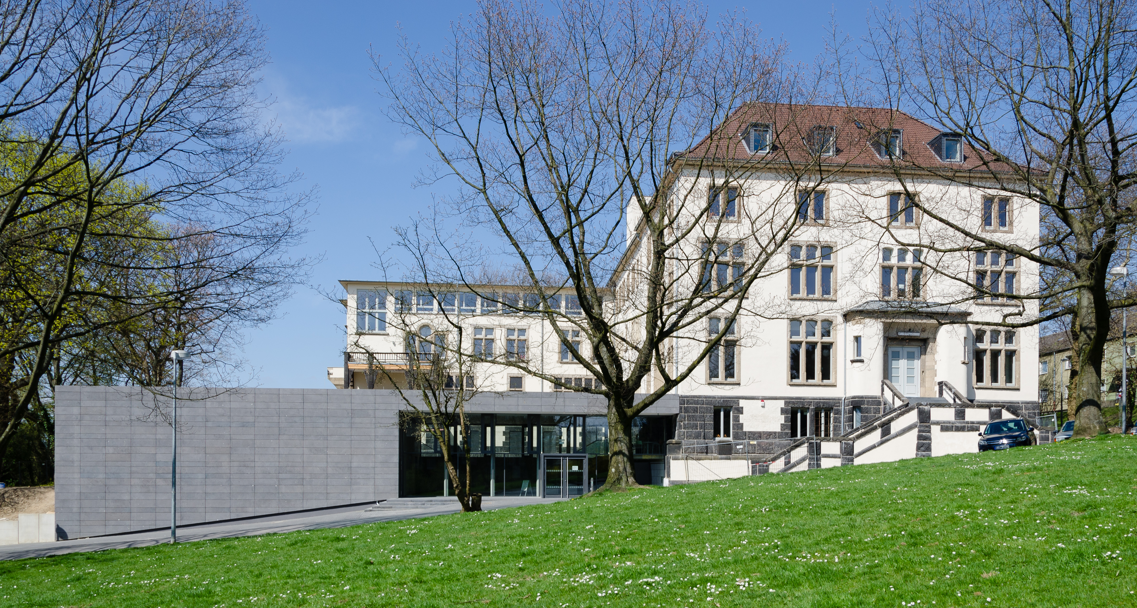 Conversion of the former ophthalmic clinic into a city history museum and a music school